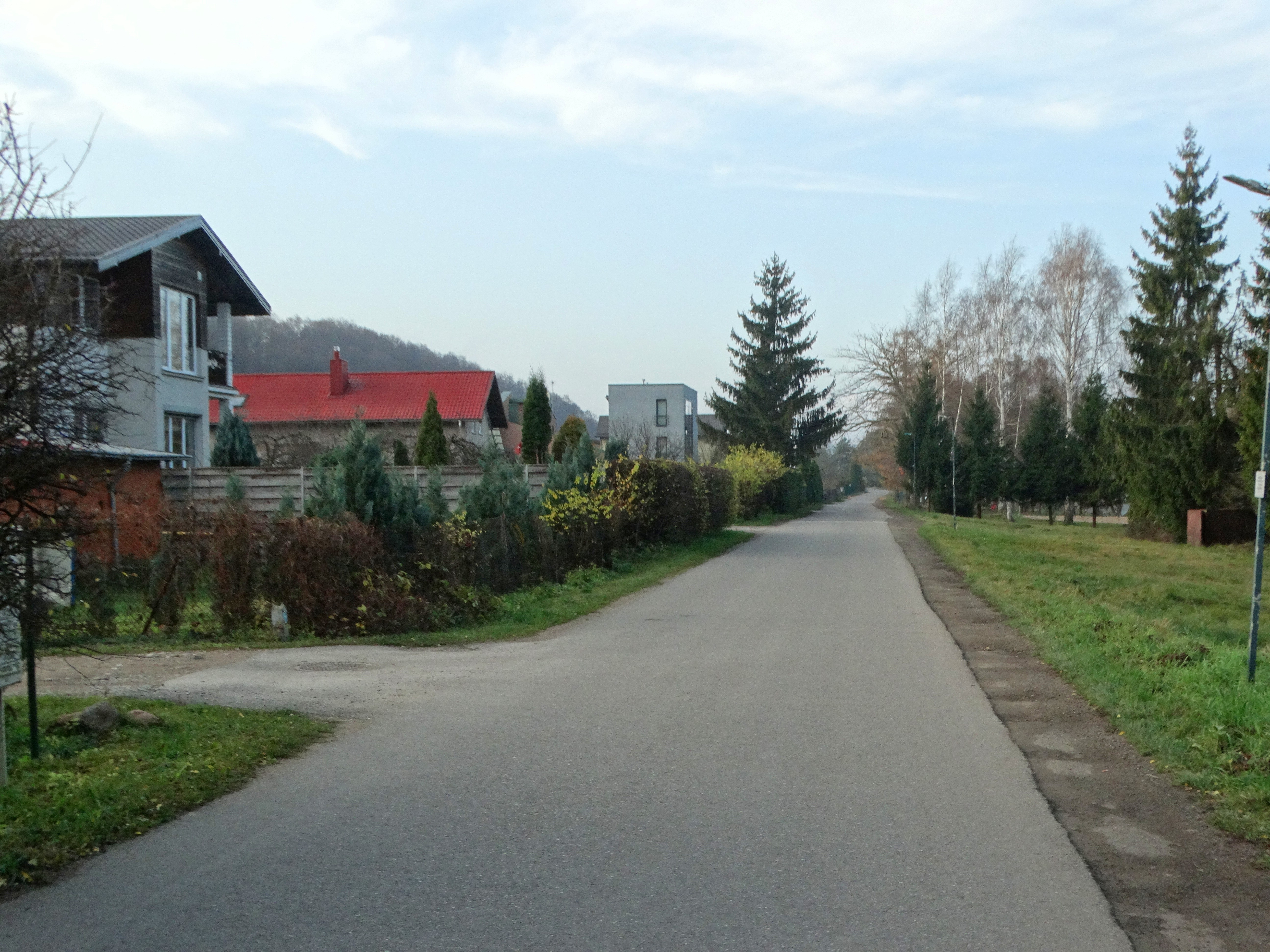 Naujasodis, Kaunas district, Lithuania